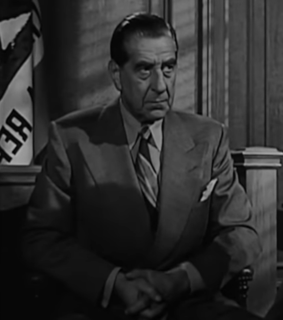 Robert Warwick in Impact - cropped screenshot